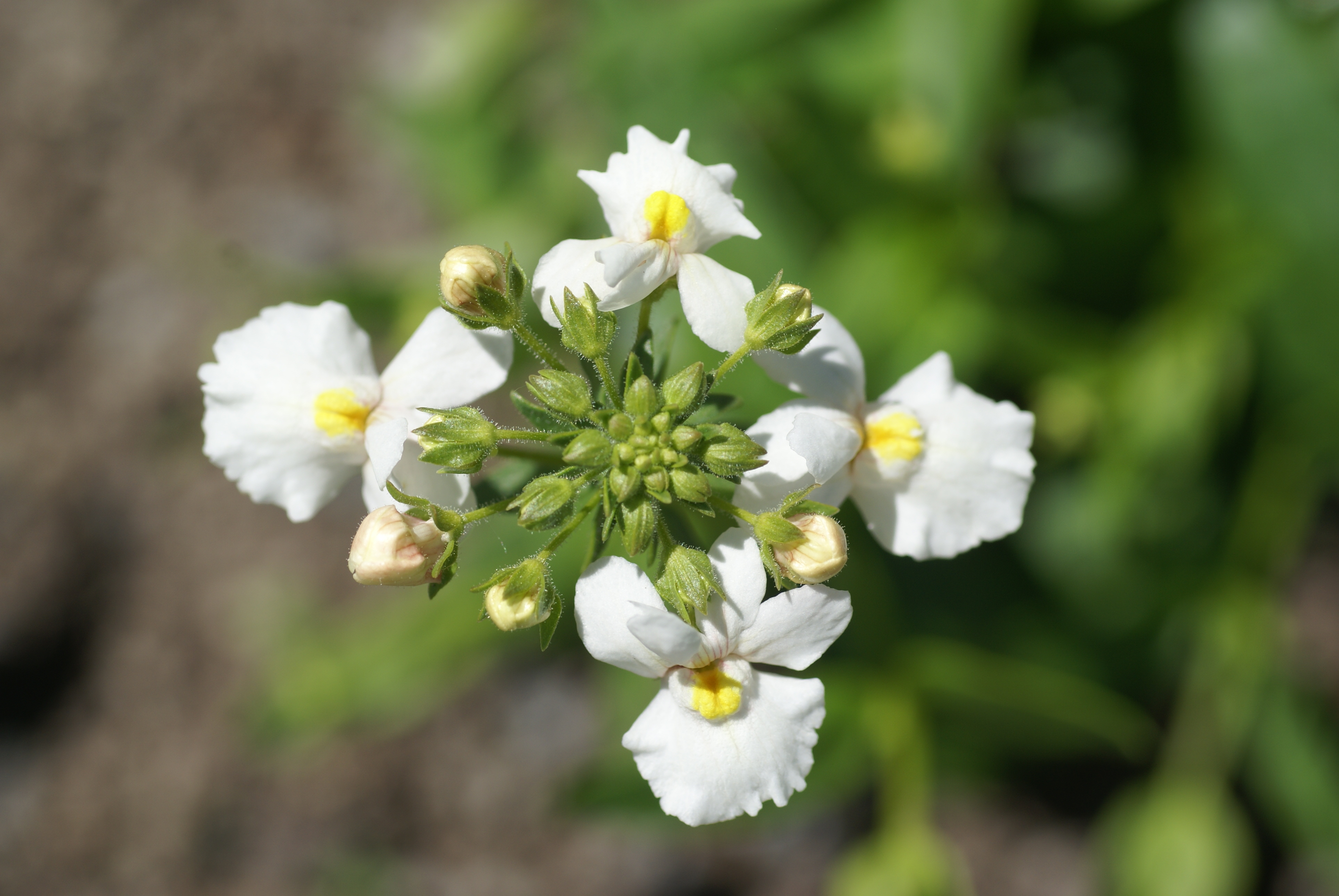 Plant species Nemesia floribunda in botanical garden Bergianska trädgården in Stockholm, Sweden.